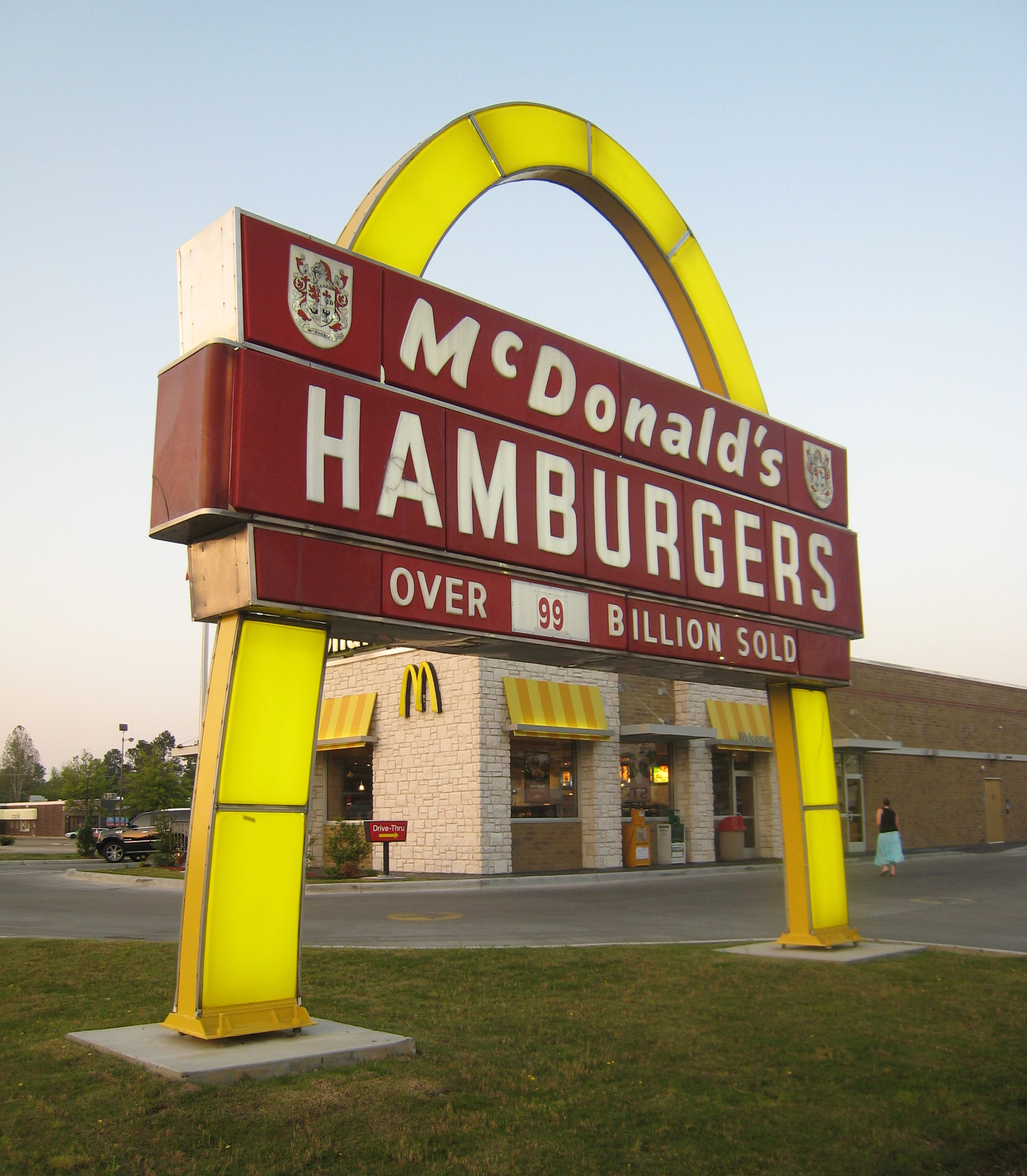 Historic 1962 Sign from McDonald's in Pine Bluff, Arkansas on Olive Street